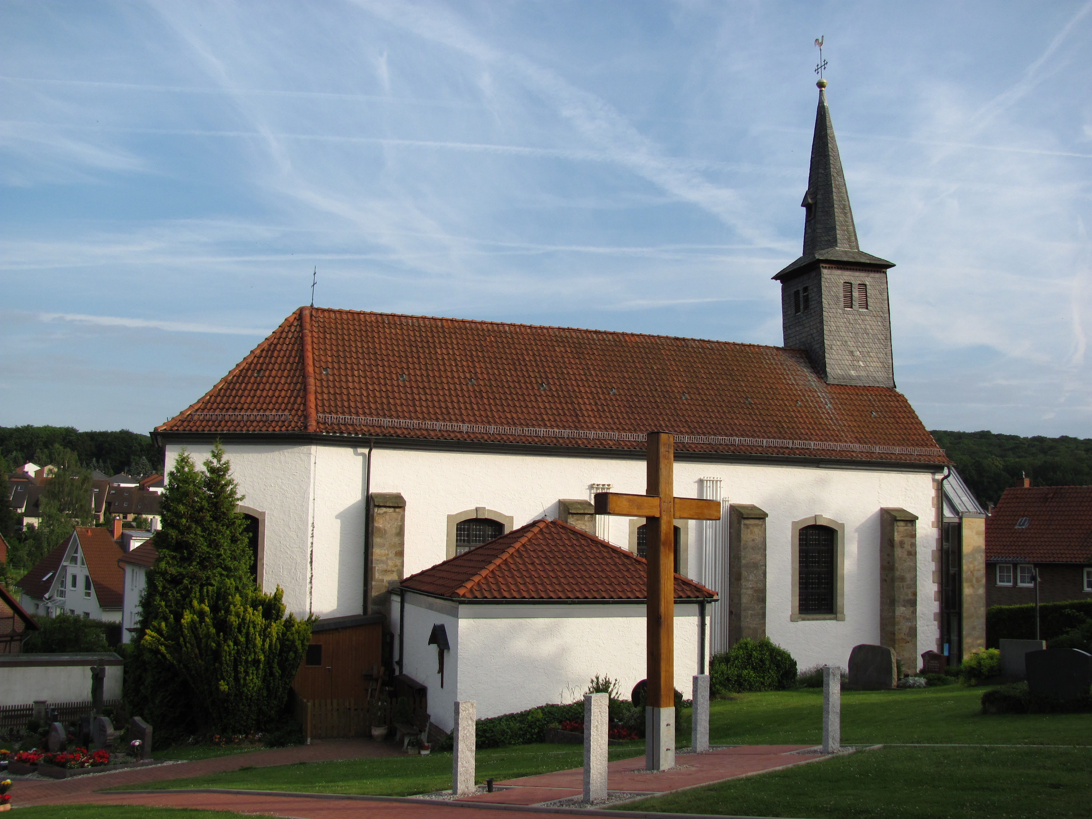 Catholic church, Diekholzen, Germany.